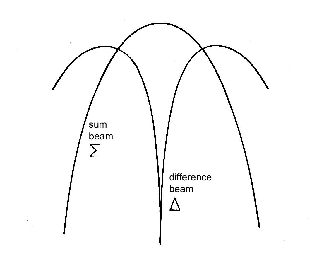 This has appeared in several technical papers authored by me